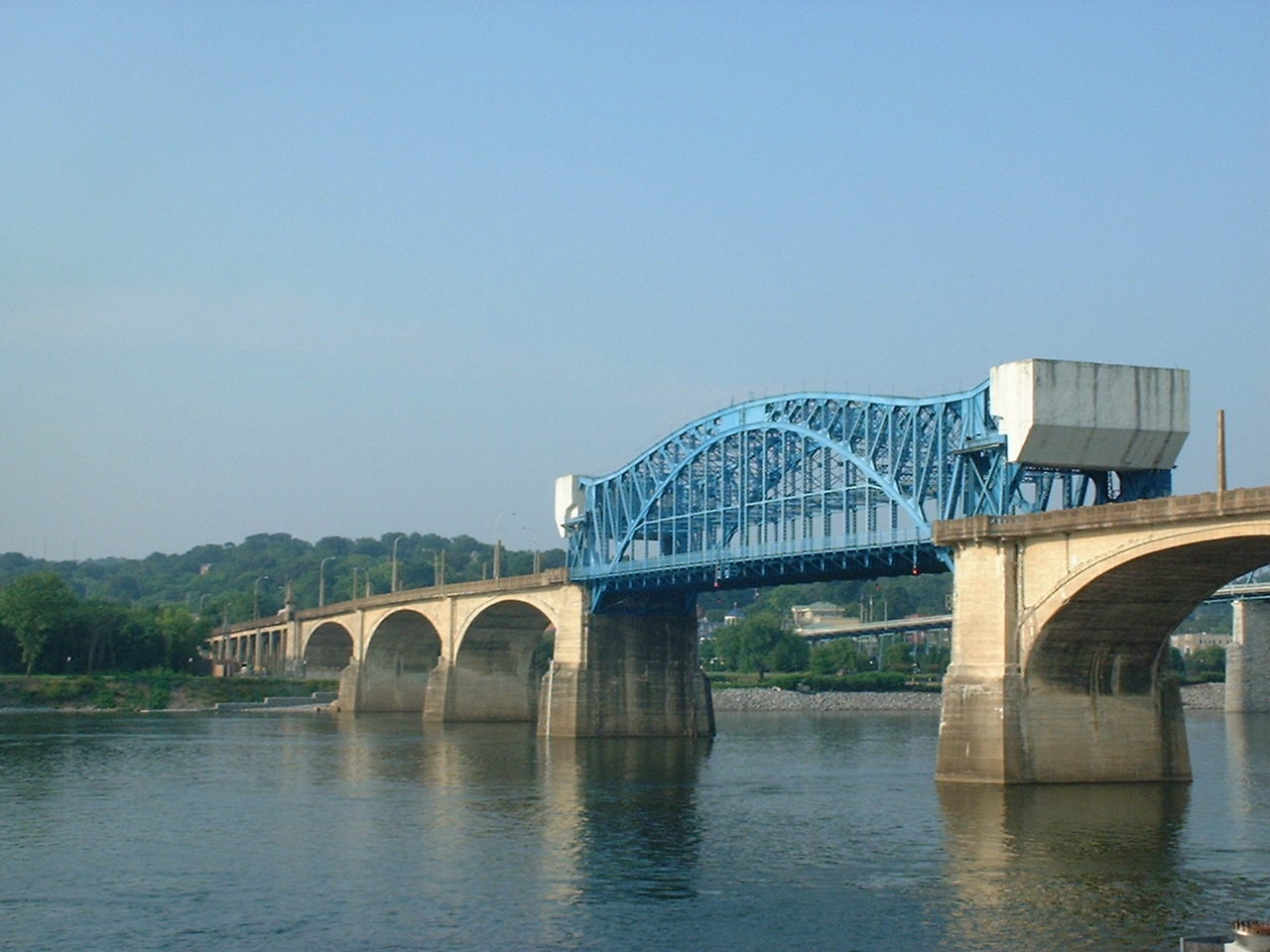 The Market Street Bridge, spanning the Tennessee River in Chattanooga.